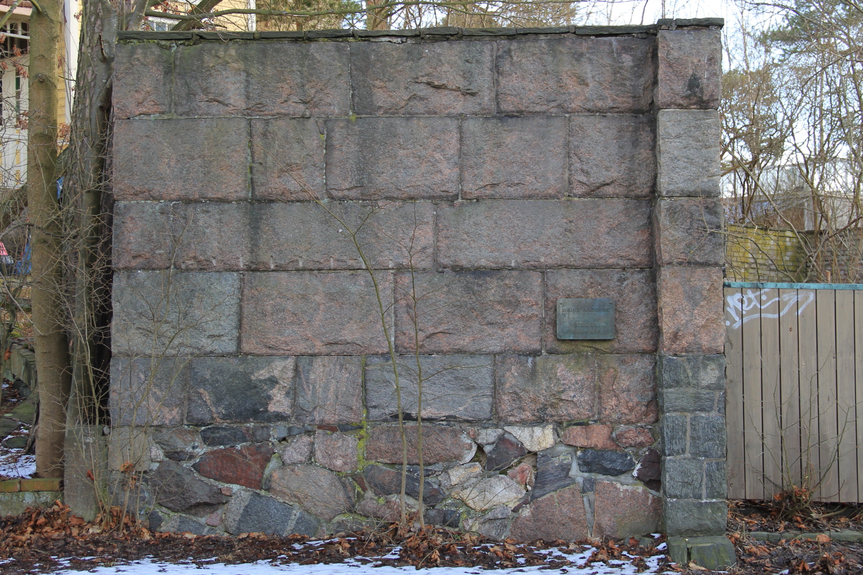 Memorial plaque at site of Wäinö Aaltonen's atelier in Kulosaari, Helsinki, Finland. Atelier was completed in 1929 and he used it until his death. It was demolished in 1979. Memorial was designed by architect Lars Hedman and unveiled in 1994. — Perspective corrected, cropped.